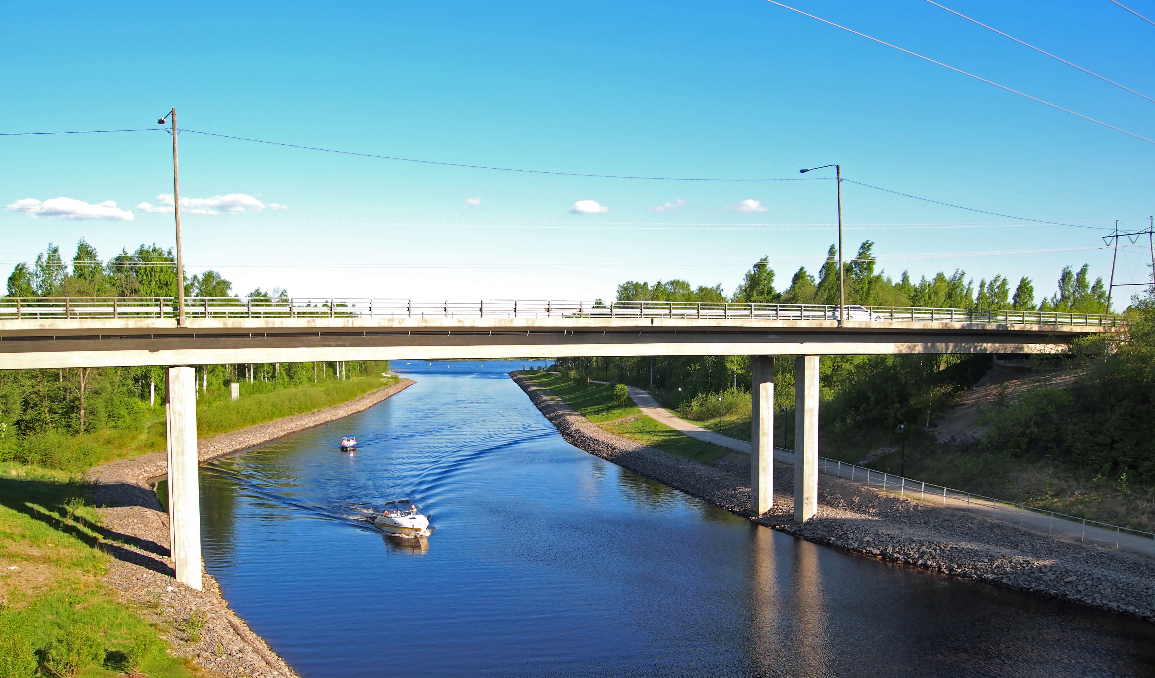 Bridge on street Kuokkalantie and two boats in Jyväskylä.